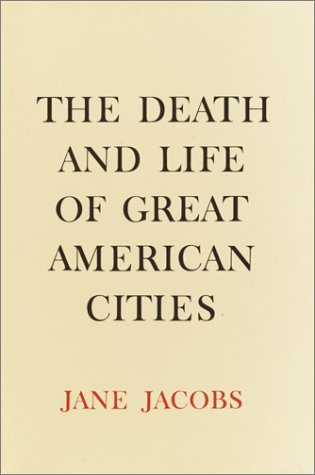 Cover of the book The Death and Life of Great American Cities by Jane Jacobs